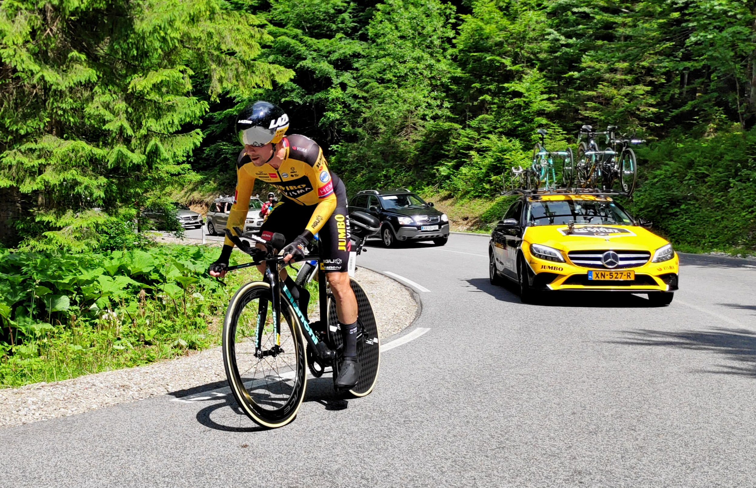 Primož Roglič (Team Jumbo Visma) at the 2020 Slovenian Time Trial championship ascending to Pokljuka, finished as 2nd, 8,5 s behind Tadej Pogačar. Pokljuka, Slovenia